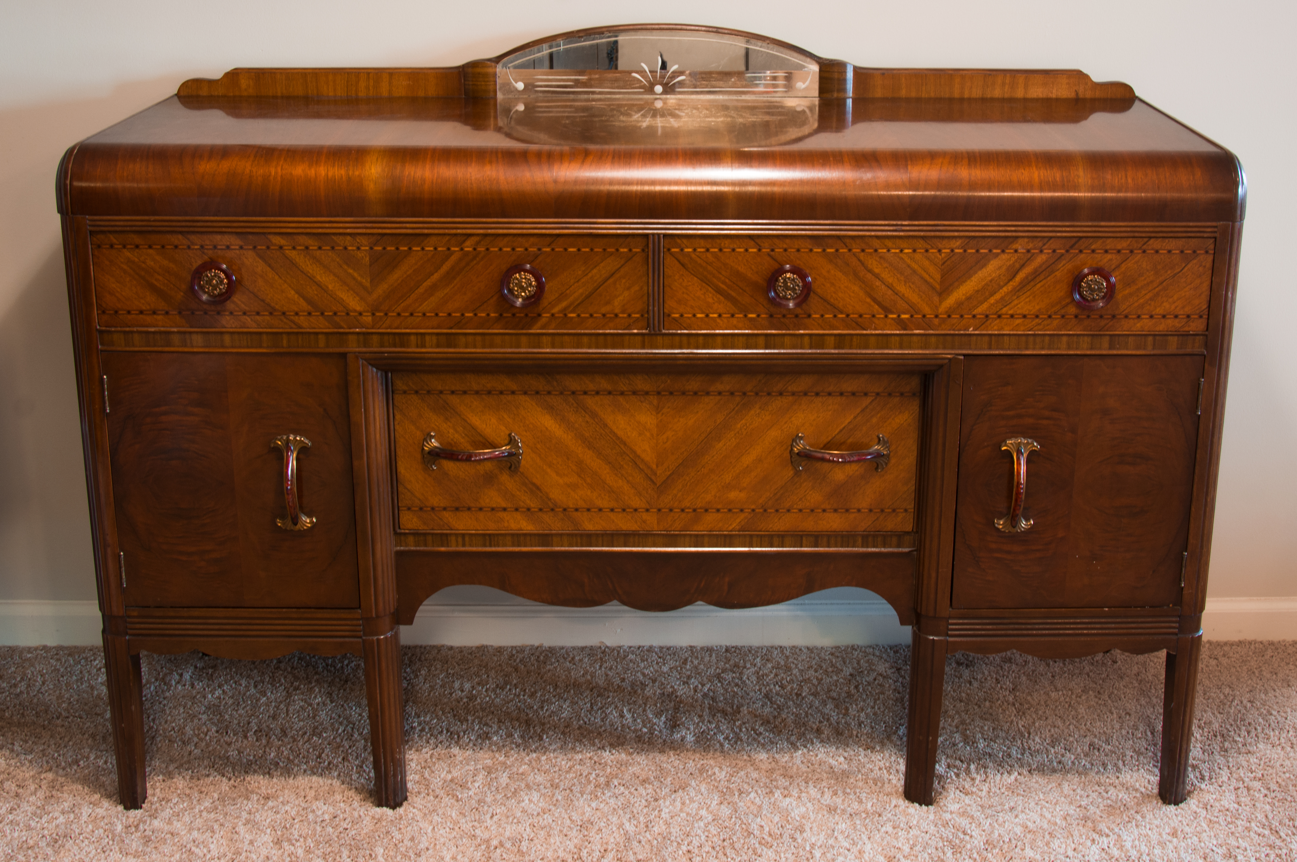 A buffet table in the Art Deco Waterfall style.